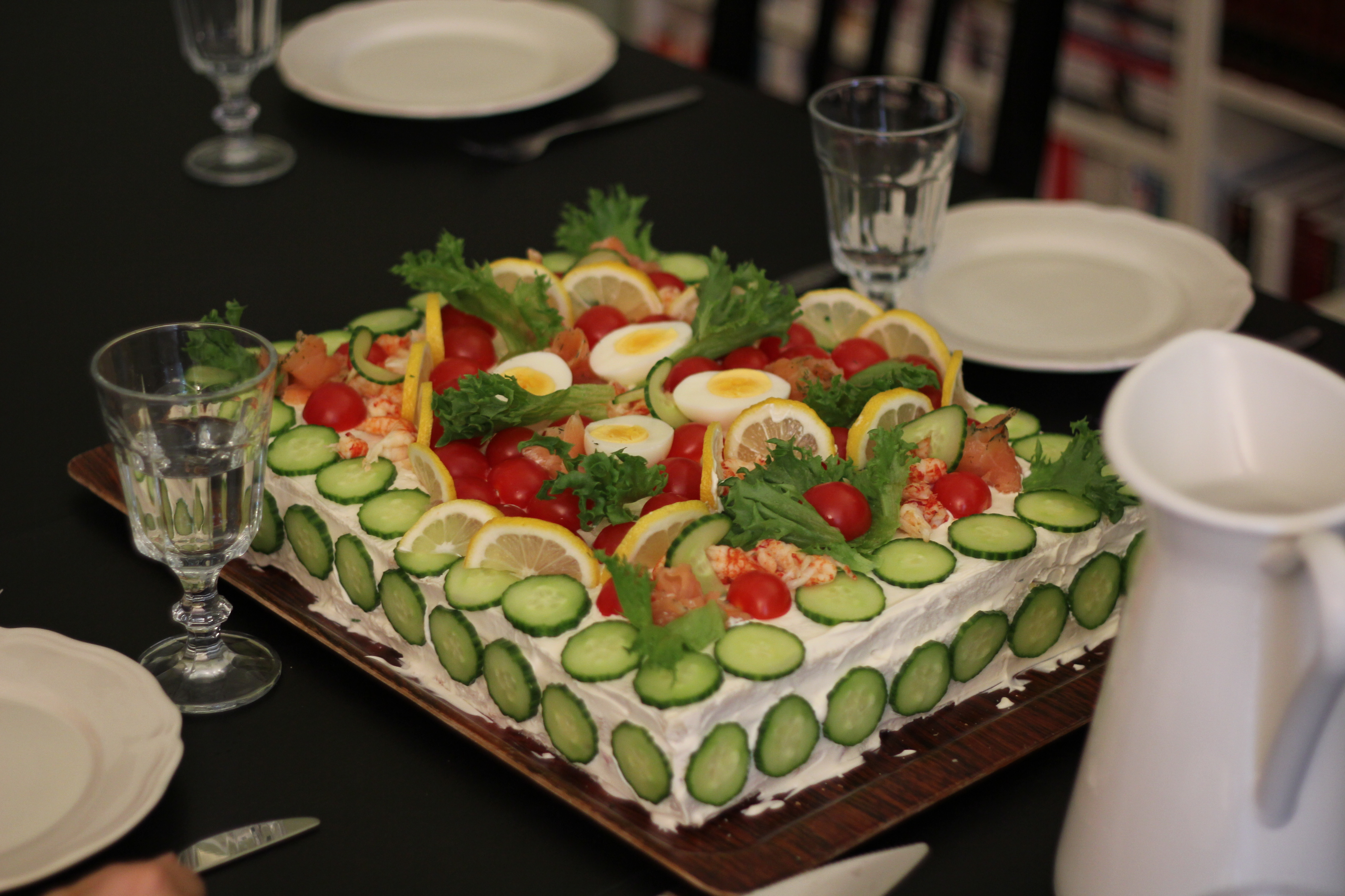 This is a picture of a Smörgåstårta.